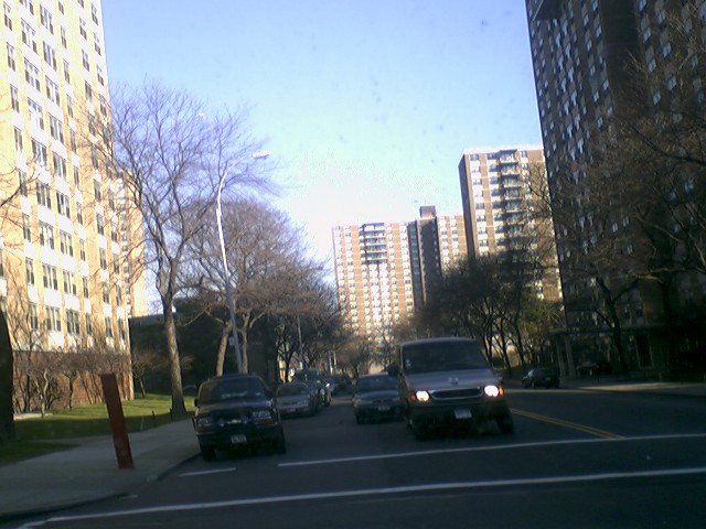 Among the Spring Creek houses in Brooklyn